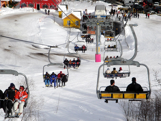 on the rope way